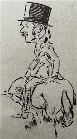 A caricature of Mr. Bertie Burkill as Master of the Paperhunt Club drawn in 1930.